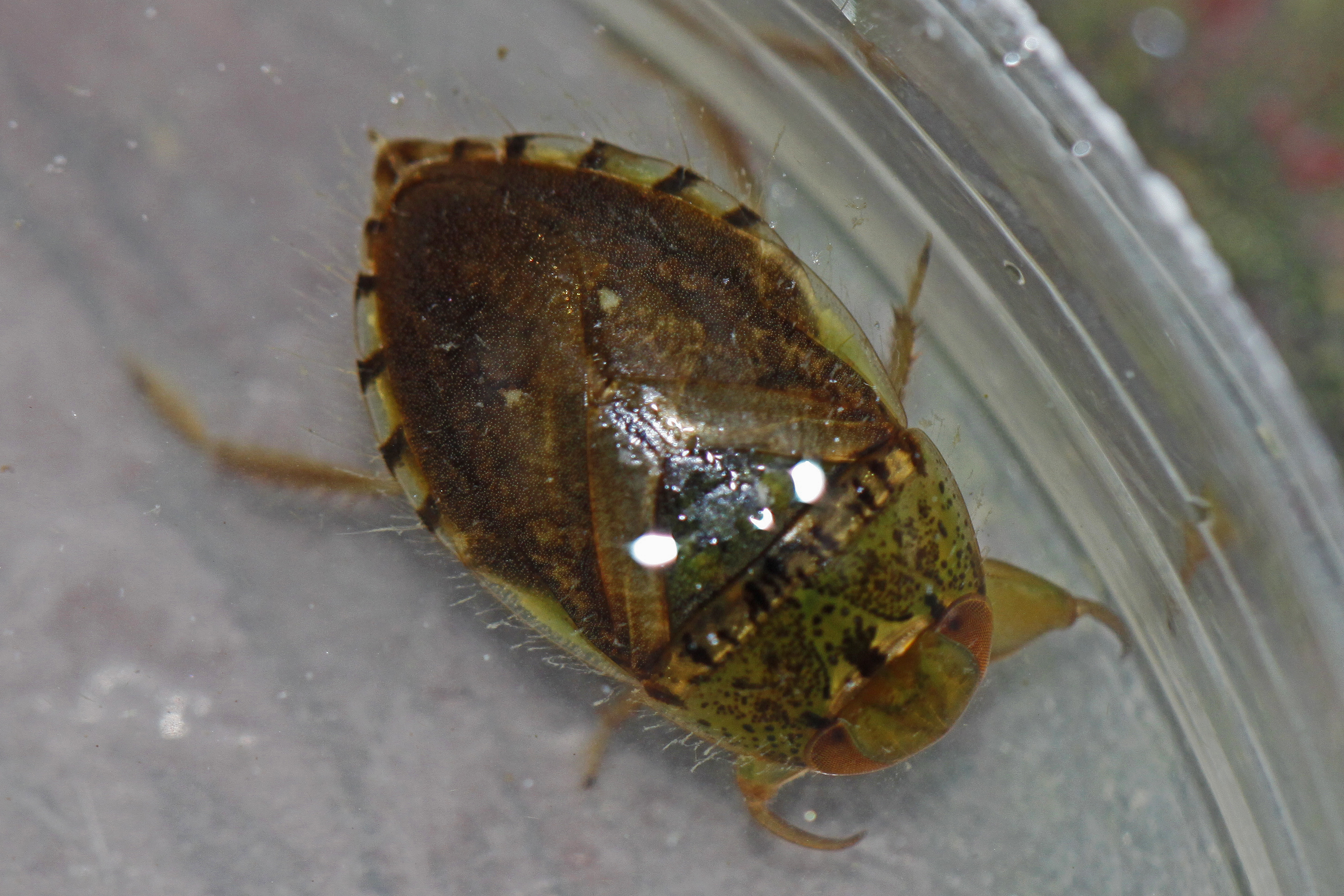 Creeping Water Bug - Pelocoris femoratus, Maydale Park, Colesville, Maryland (Montgomery County, 10/1/2011)